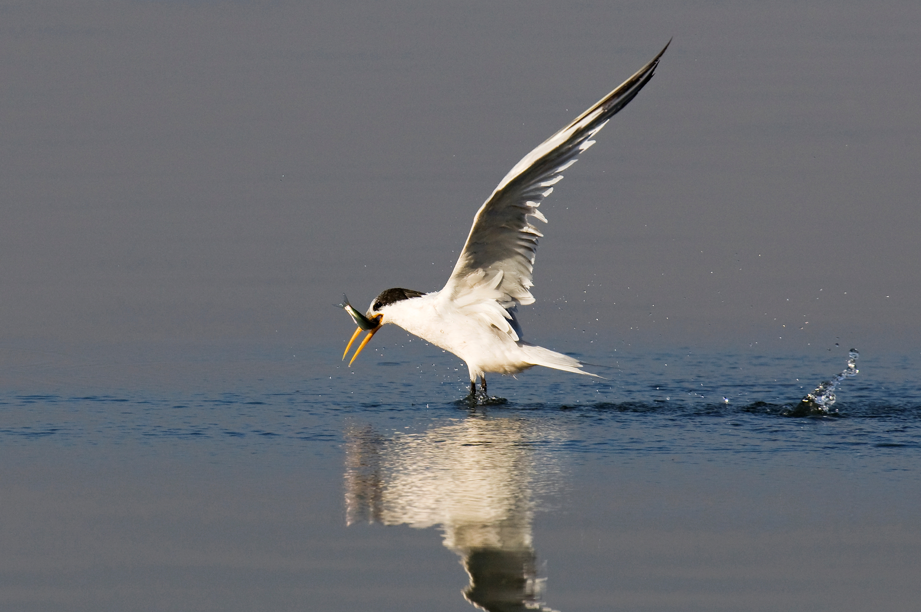 Elegant Tern (Sterna elegans) feeding. Canon 1D Mark III with 300mm f2.8L IS + 2.0 TC.